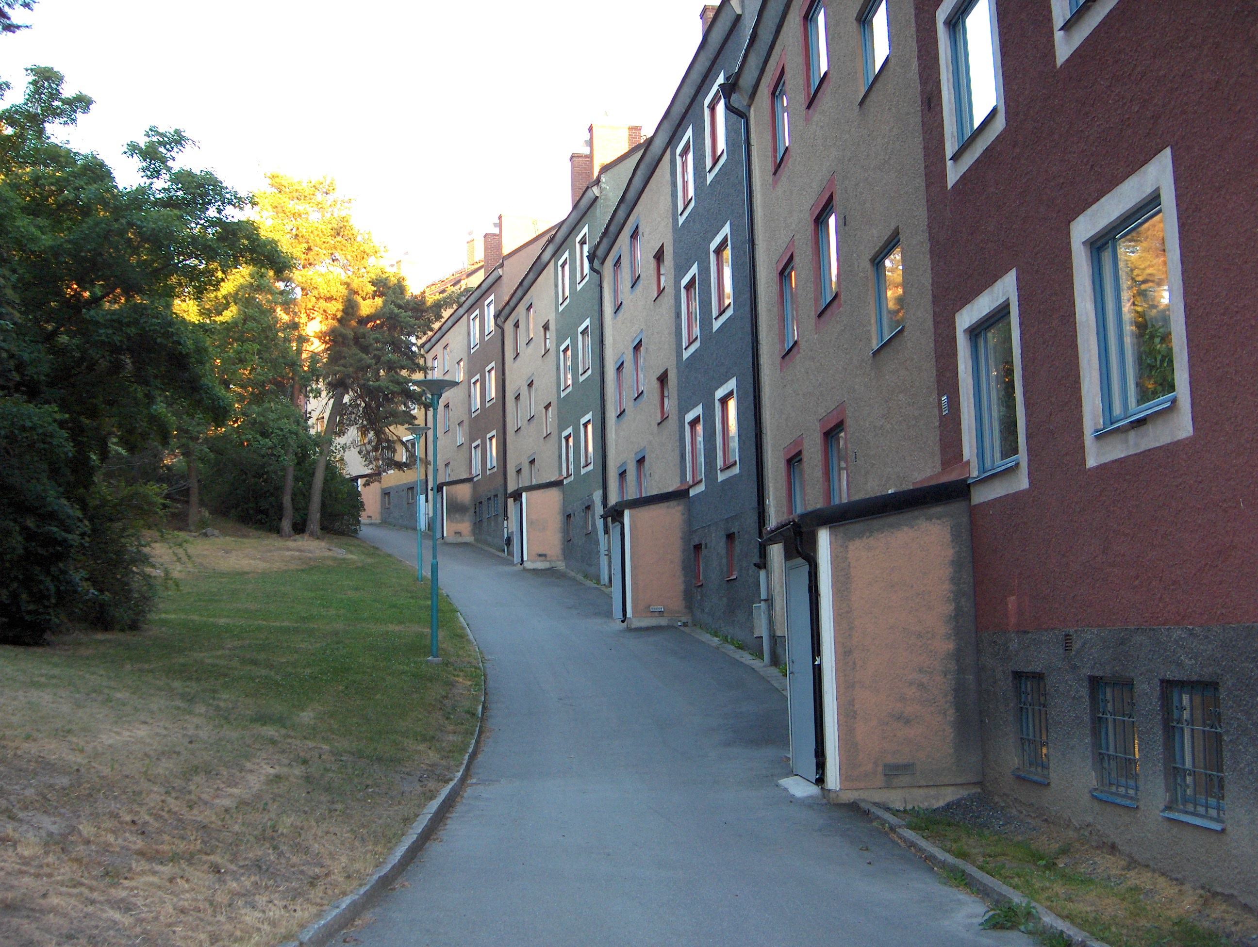 Houses in Storskogen, Sundbyberg, Sweden.